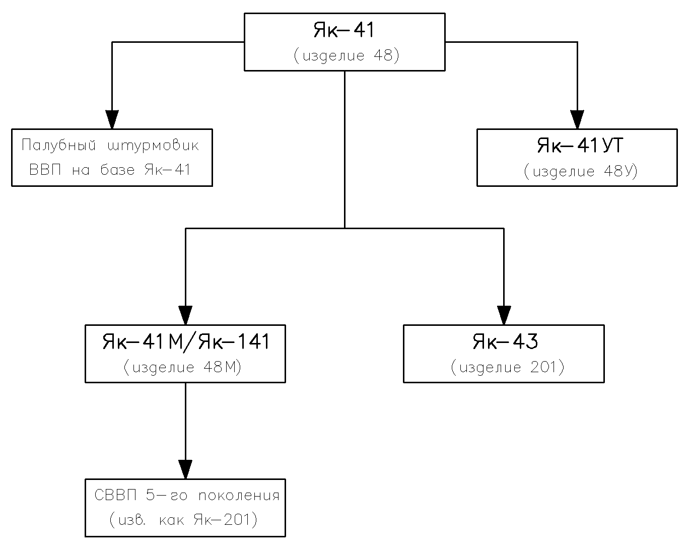 Scheme, showing Yakovlev Yak-41 VTOL fighter's modifications